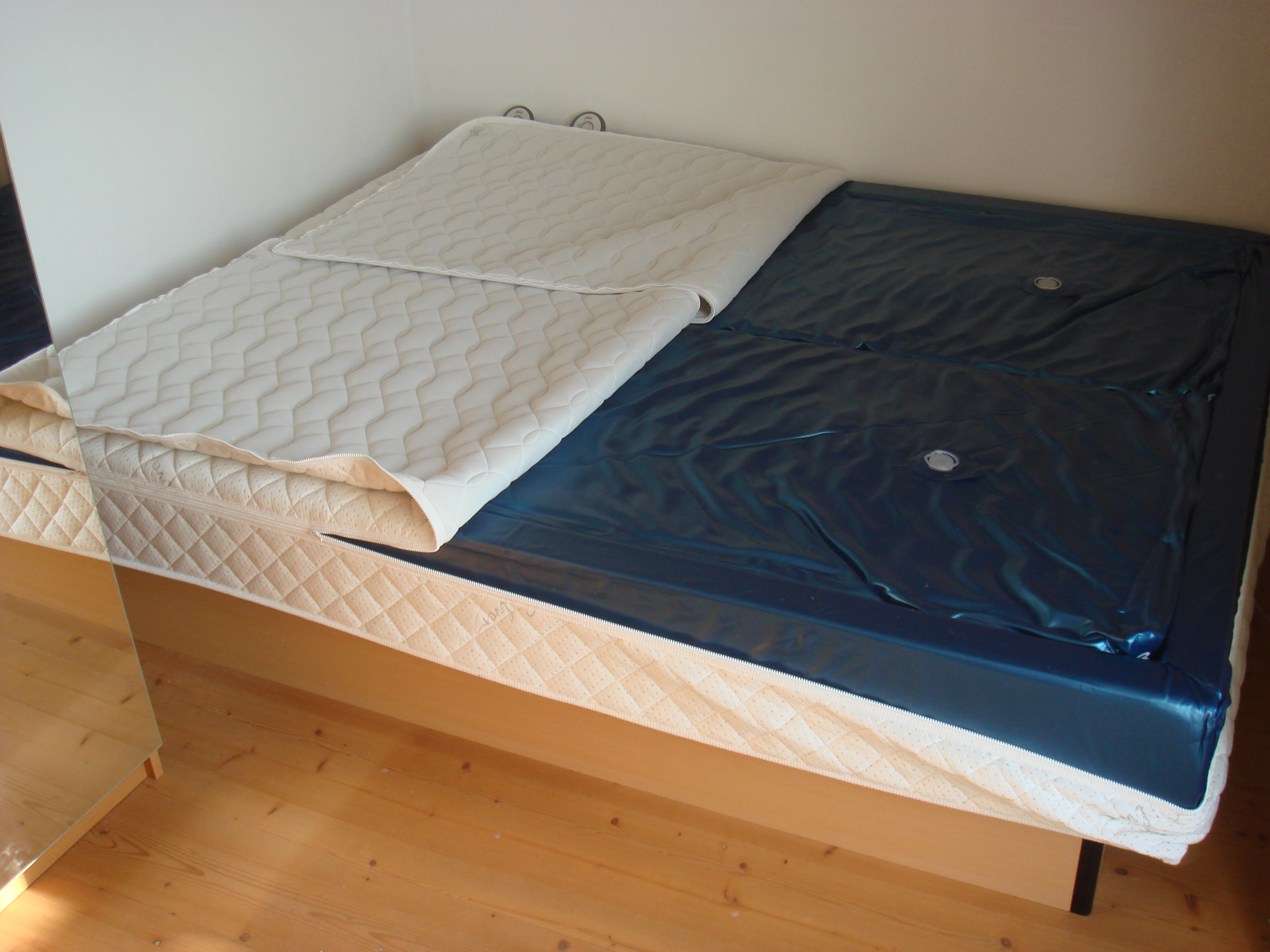 Softside Waterbed inside 160x200cm with heating and two waterchambers